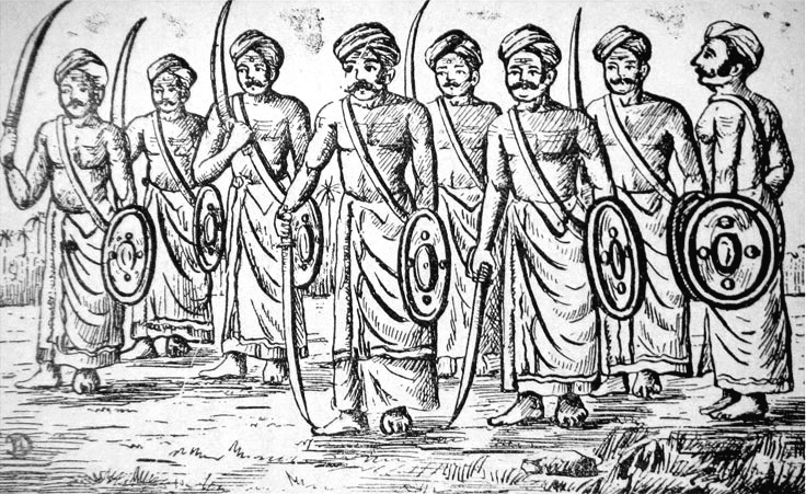 An Illustration of Ettuveettil Pillas File is a scan copy of the source page and edited with Adobe Photoshop 7.0